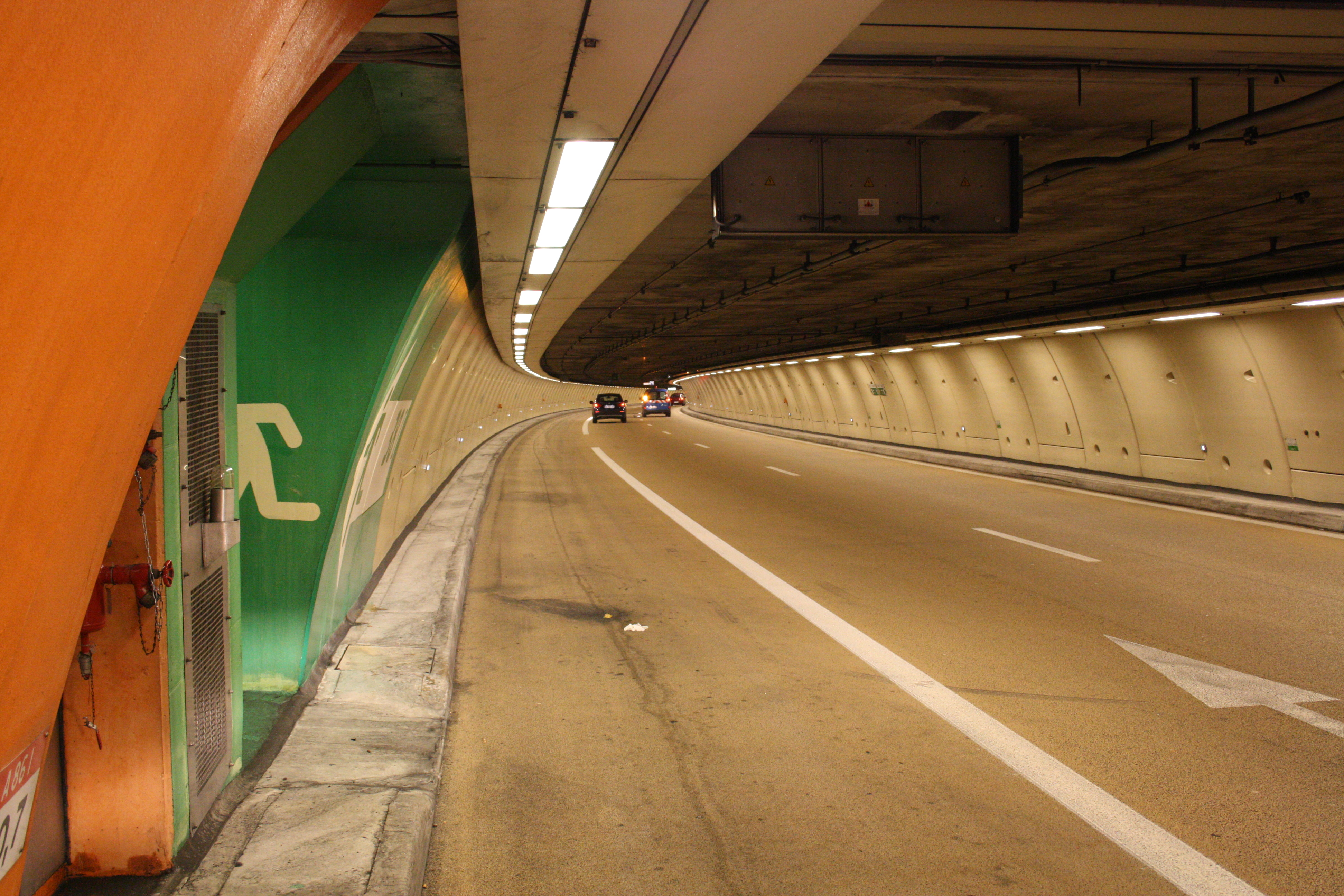 Duplex A86 is a tunnel of the A86 highway between Rueil-Malmaison et Jouy-en-Josas, France.